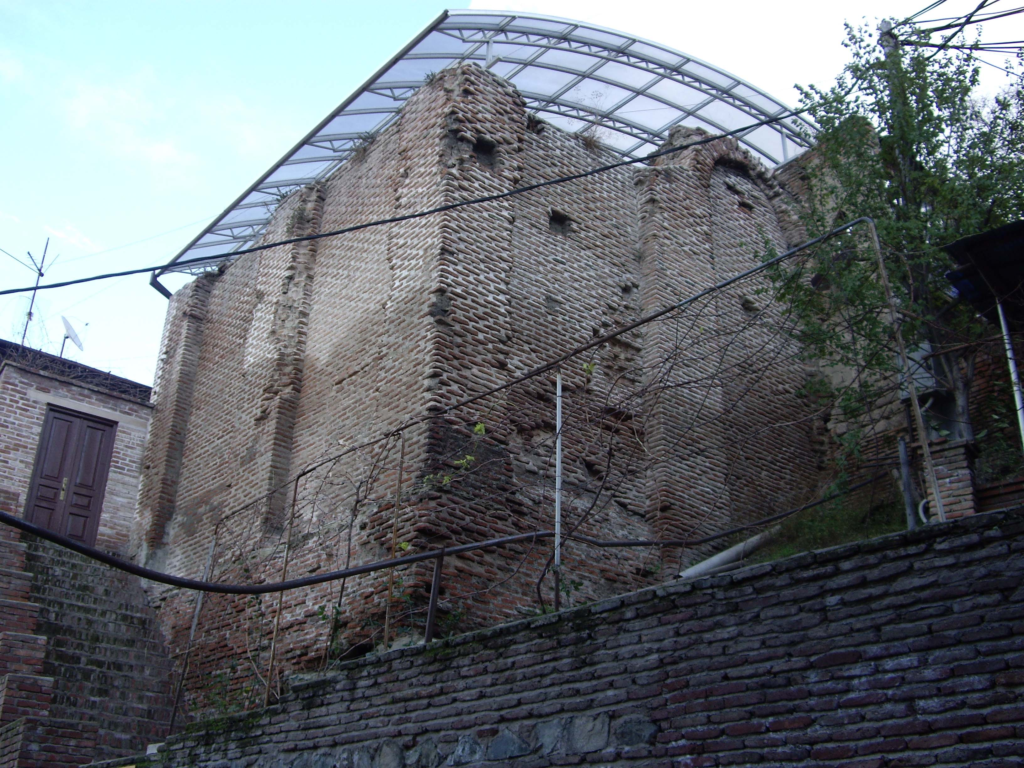 Ateshga, in ancient history a temple of fire